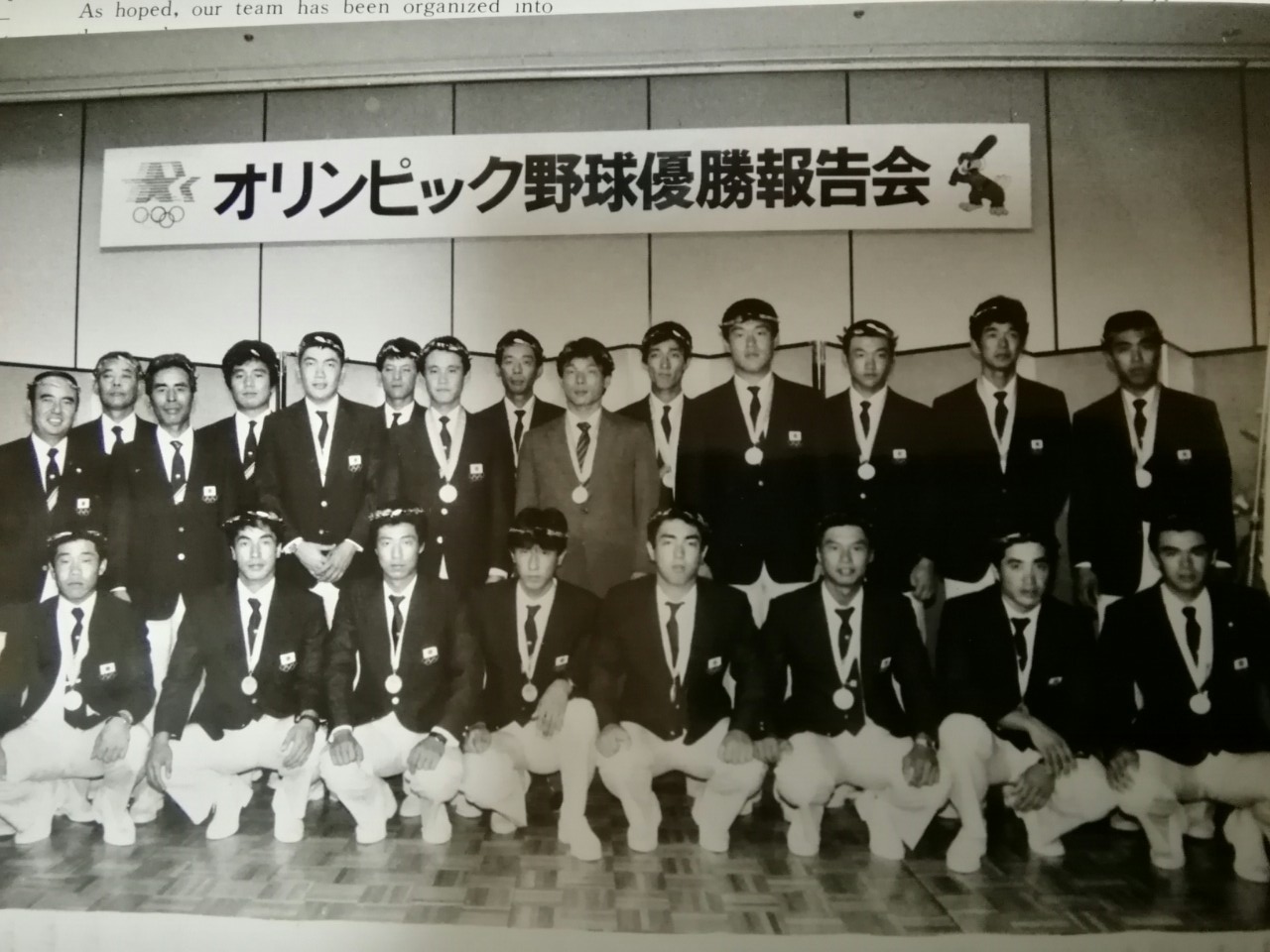 1984年ロサンゼルスオリンピック 金メダル獲得（コーチ）